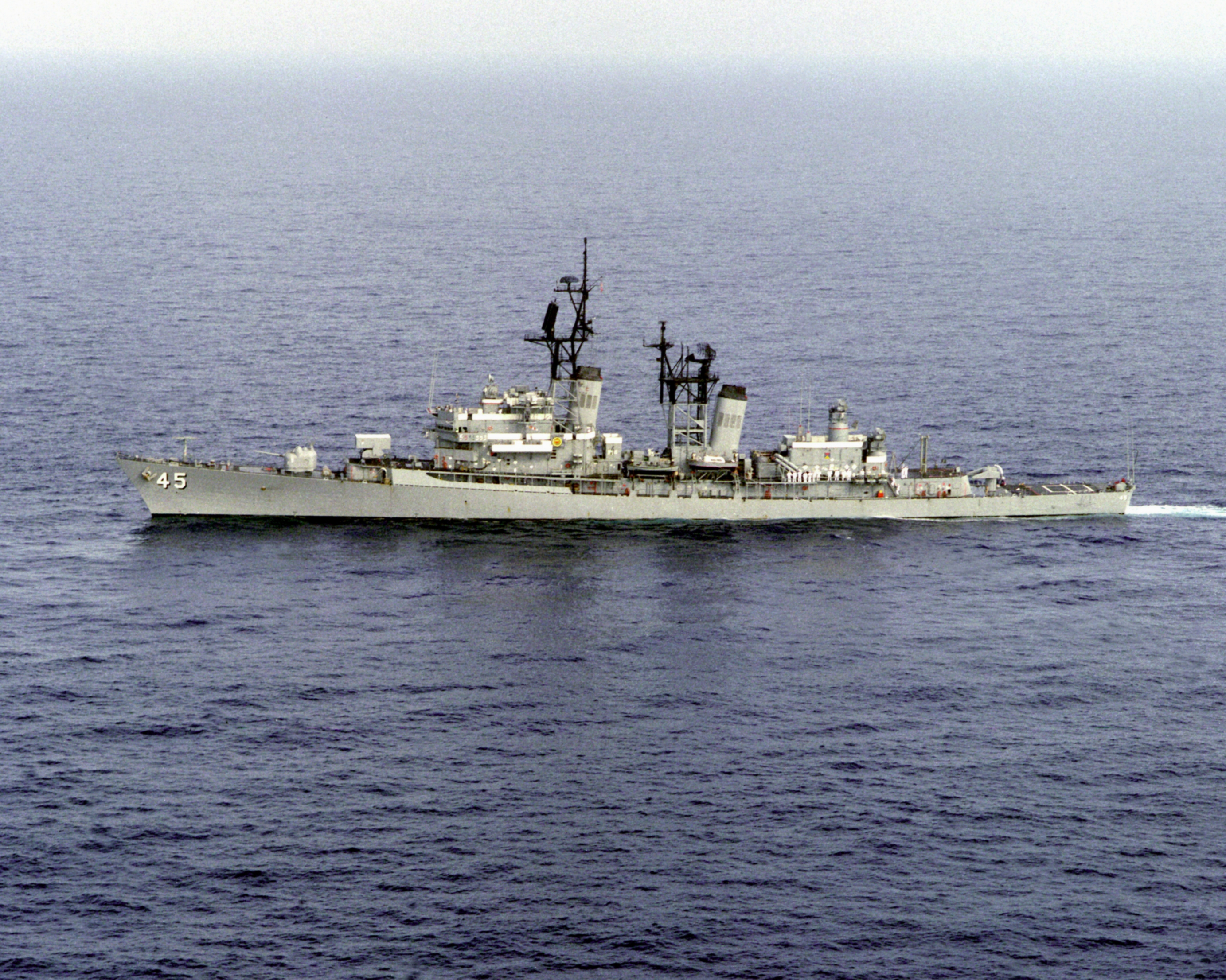 The U.S. Navy guided missile destroyer USS Dewey (DDG-45) underway in Augusta Bay, Sicily, Italy, in 1987.